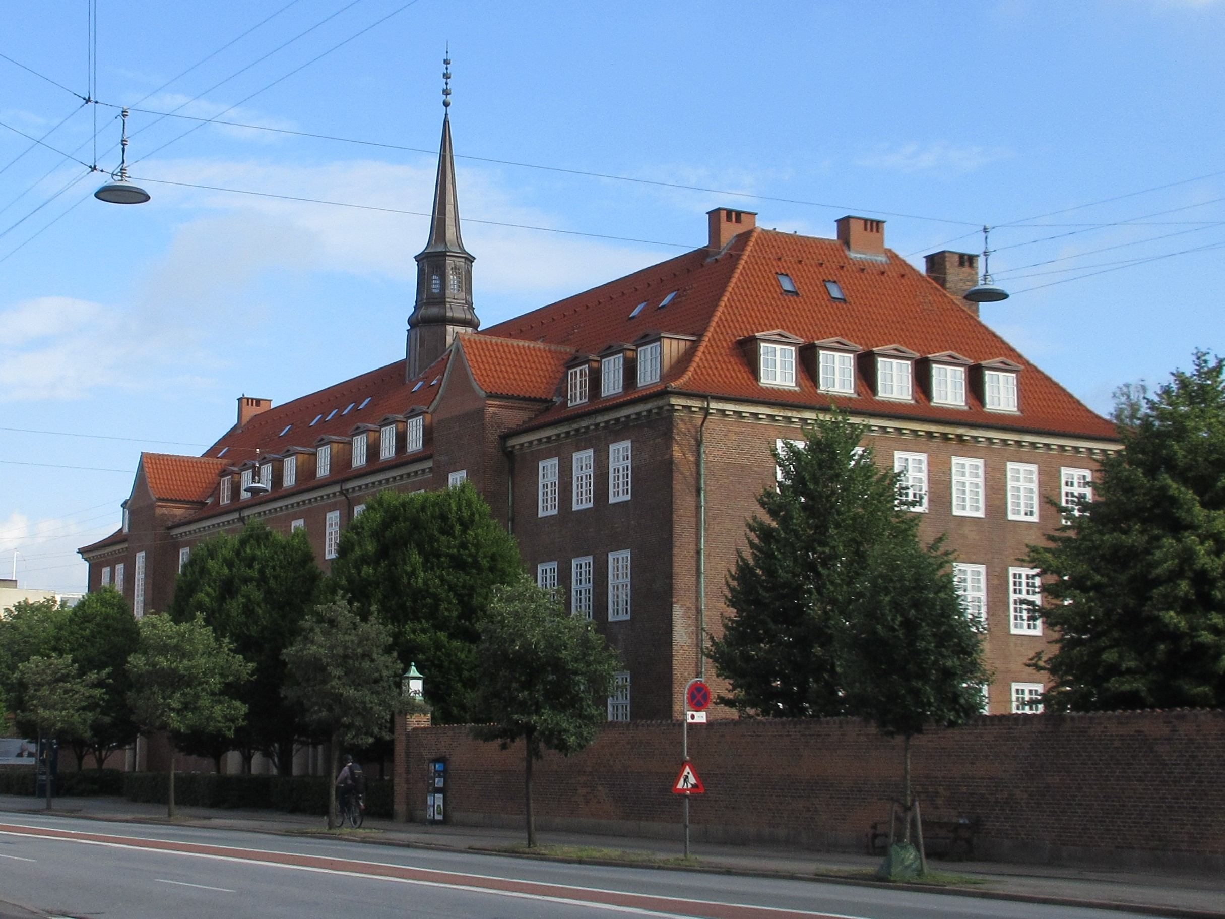 Tagensvej 18 in Copenhagen, Denmark